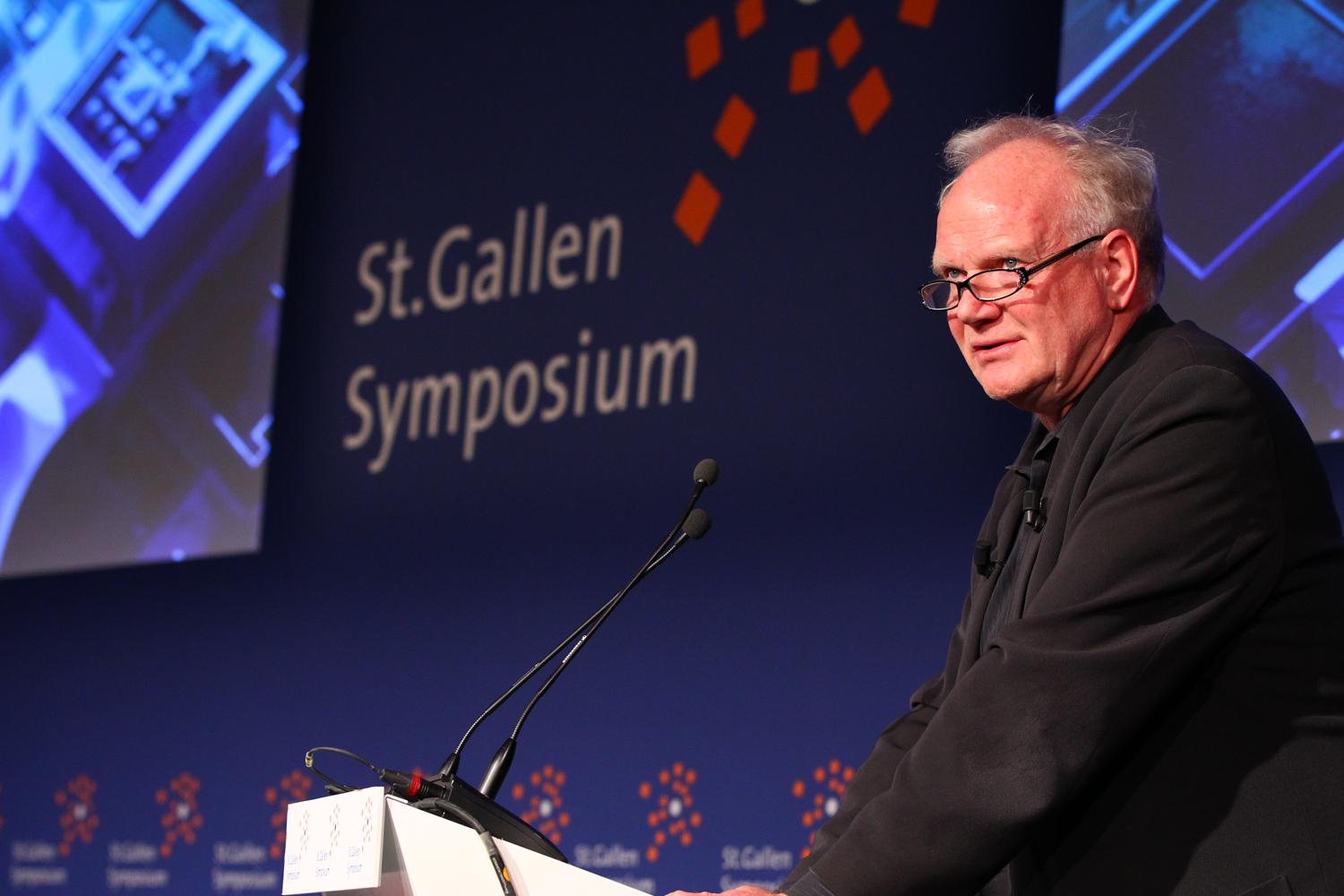 Ulrich Beck in May 2012 in a One on One with Stephen Sackur at the 42. St. Gallen Symposium at the University of St. Gallen.